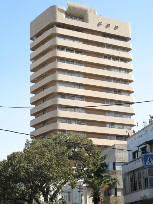 Jabotinsky House at King George V St. in Tel Aviv (in front of Gan Meir). The building is also known as "Ze'ev's Stronghold", and is named after Ze'ev Jabotinsky, the leader of the Zionist Revisionist Movement. The building used to be the center of Herut Party, and now it is the central institute of the Israeli Likkud Party.